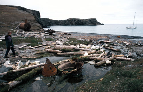 Kvalrossbukta, Southeast Bjørnøya, remnants of whalers form the beginning of 20th century, by Michael Haferkamp